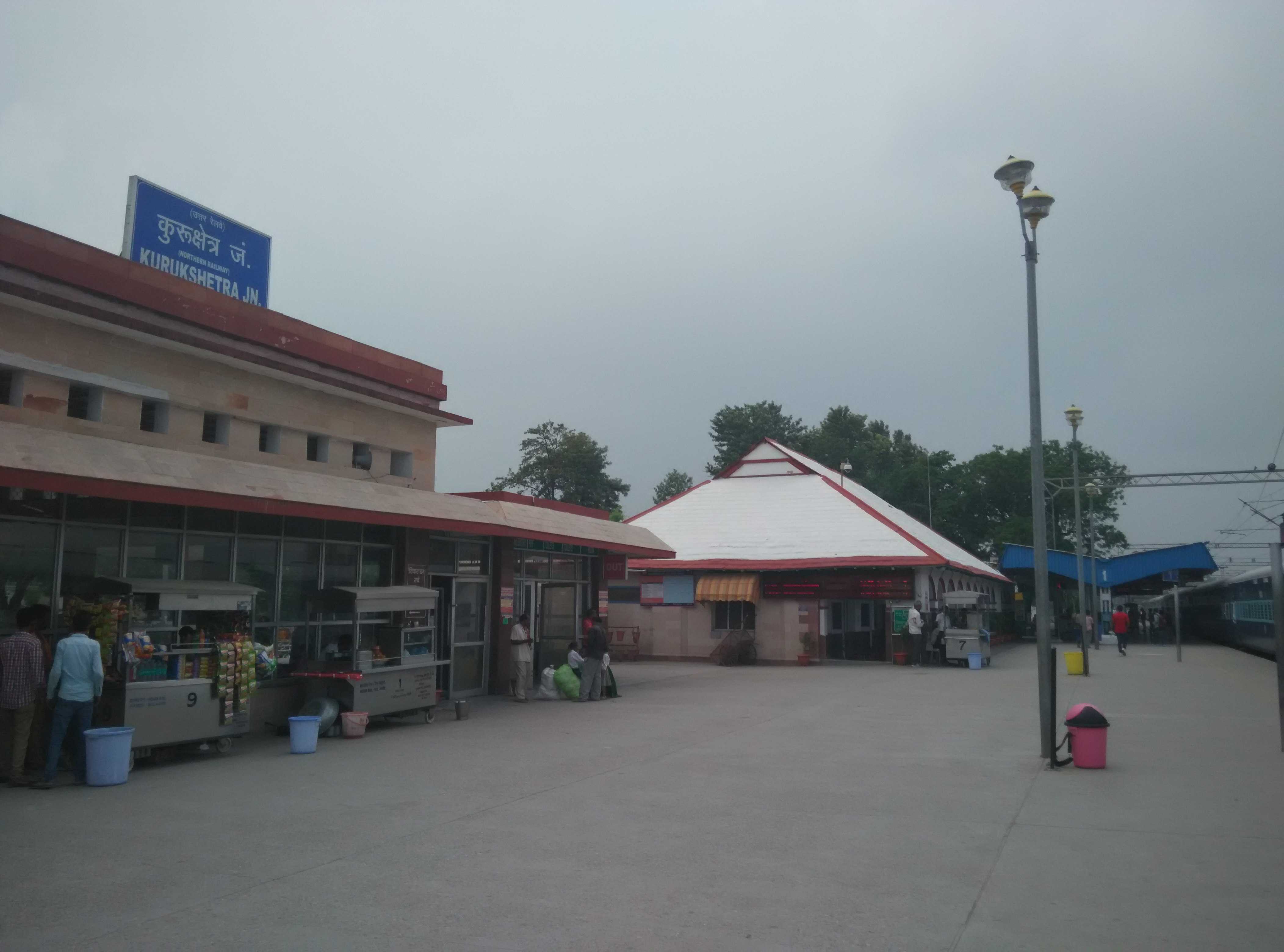 Kurukshetra Junction